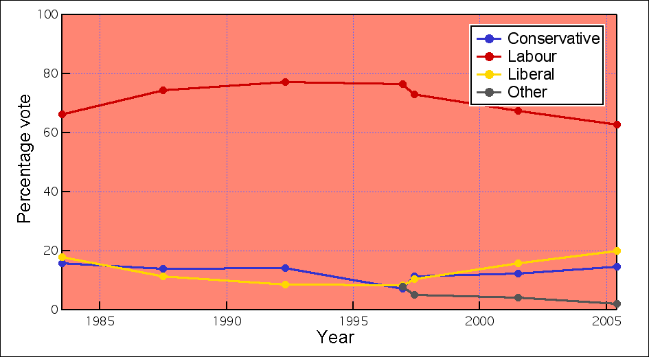 Other }